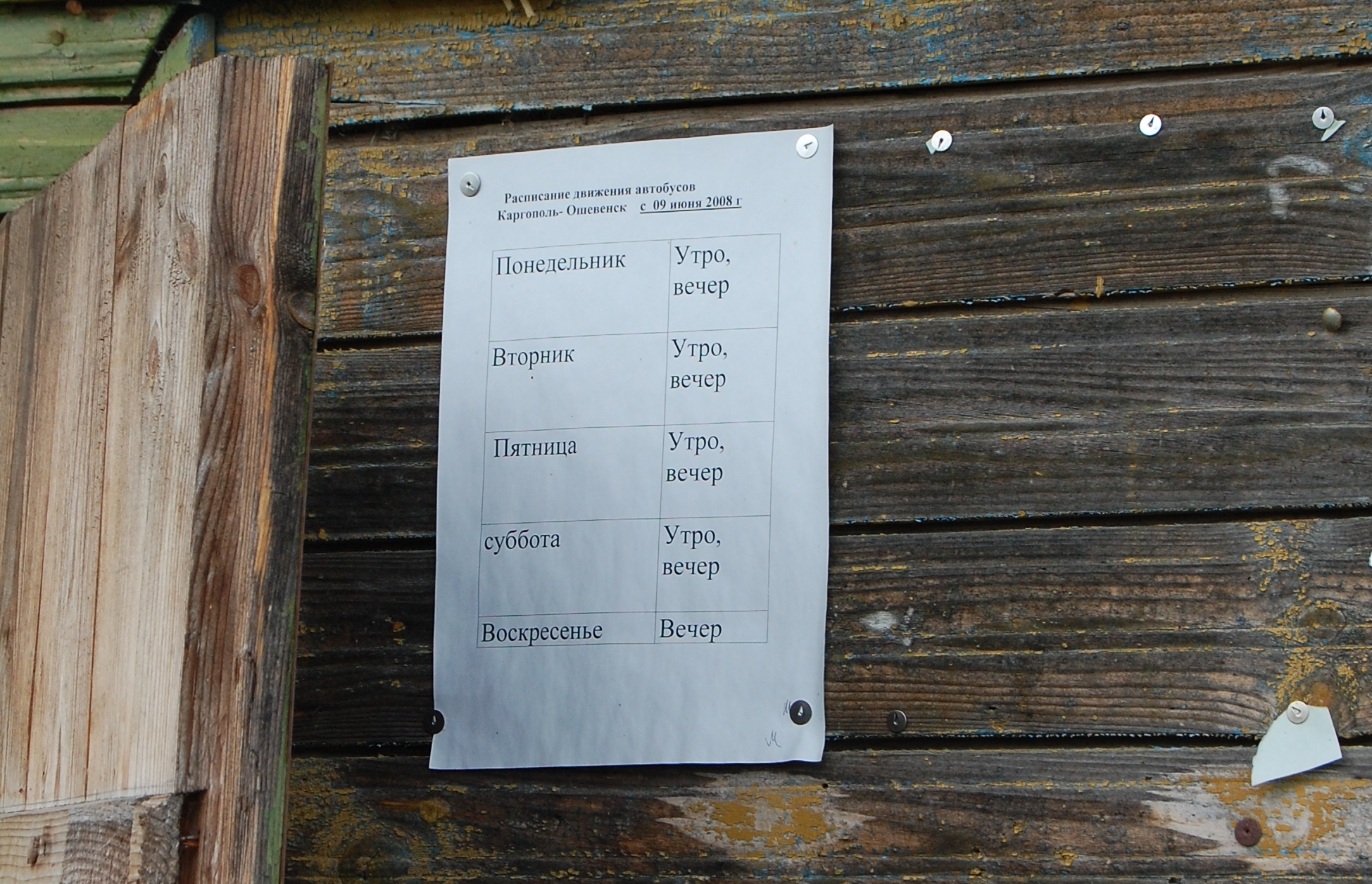 Bus schedule in Oshevensk